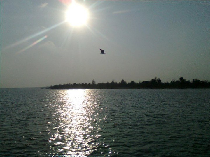 Vedal Lake, second largest lake in the kanchipuram District